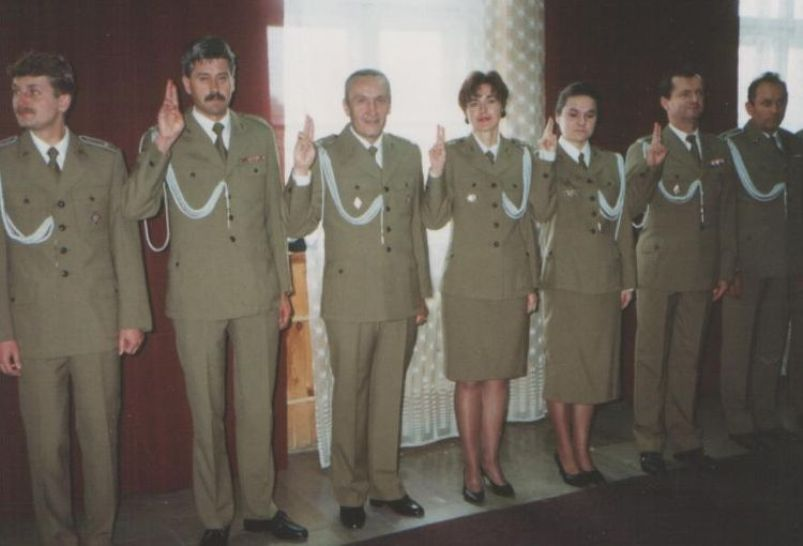 Garnizon stargard, 1992. Kadra 12 bmed podczas składania nowej przysięgi wojskowej.